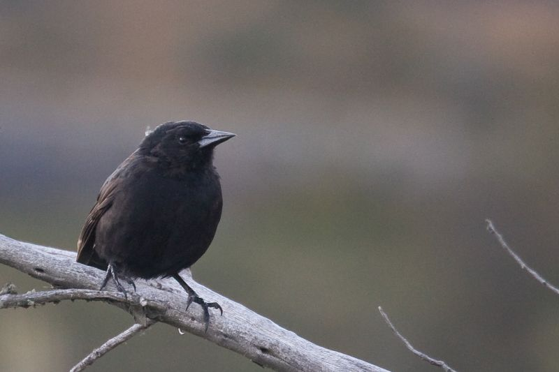 Austral Blackbird, Curaeus curaeus